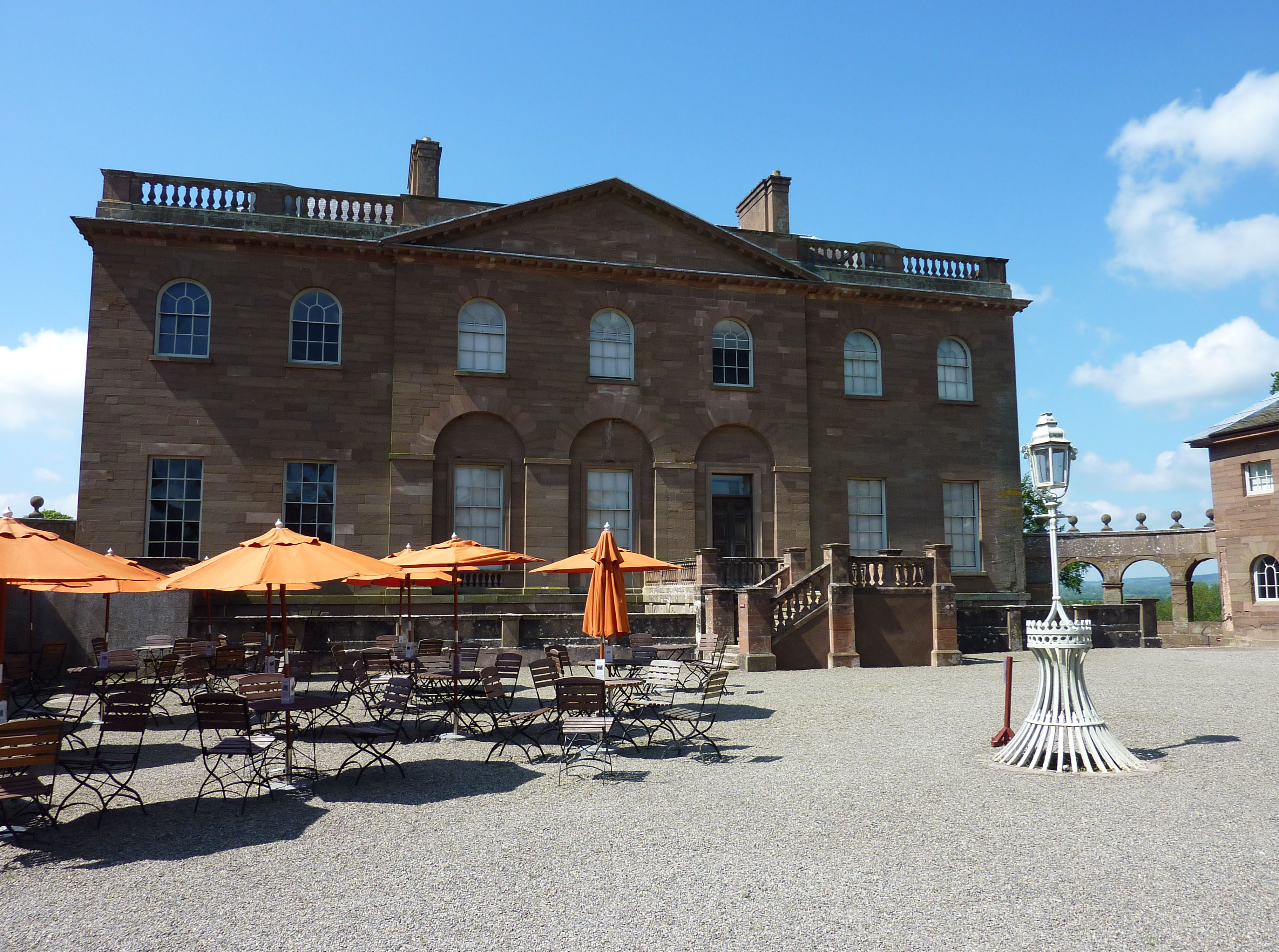 Courtyard at Berrington Hall, Herefordshire